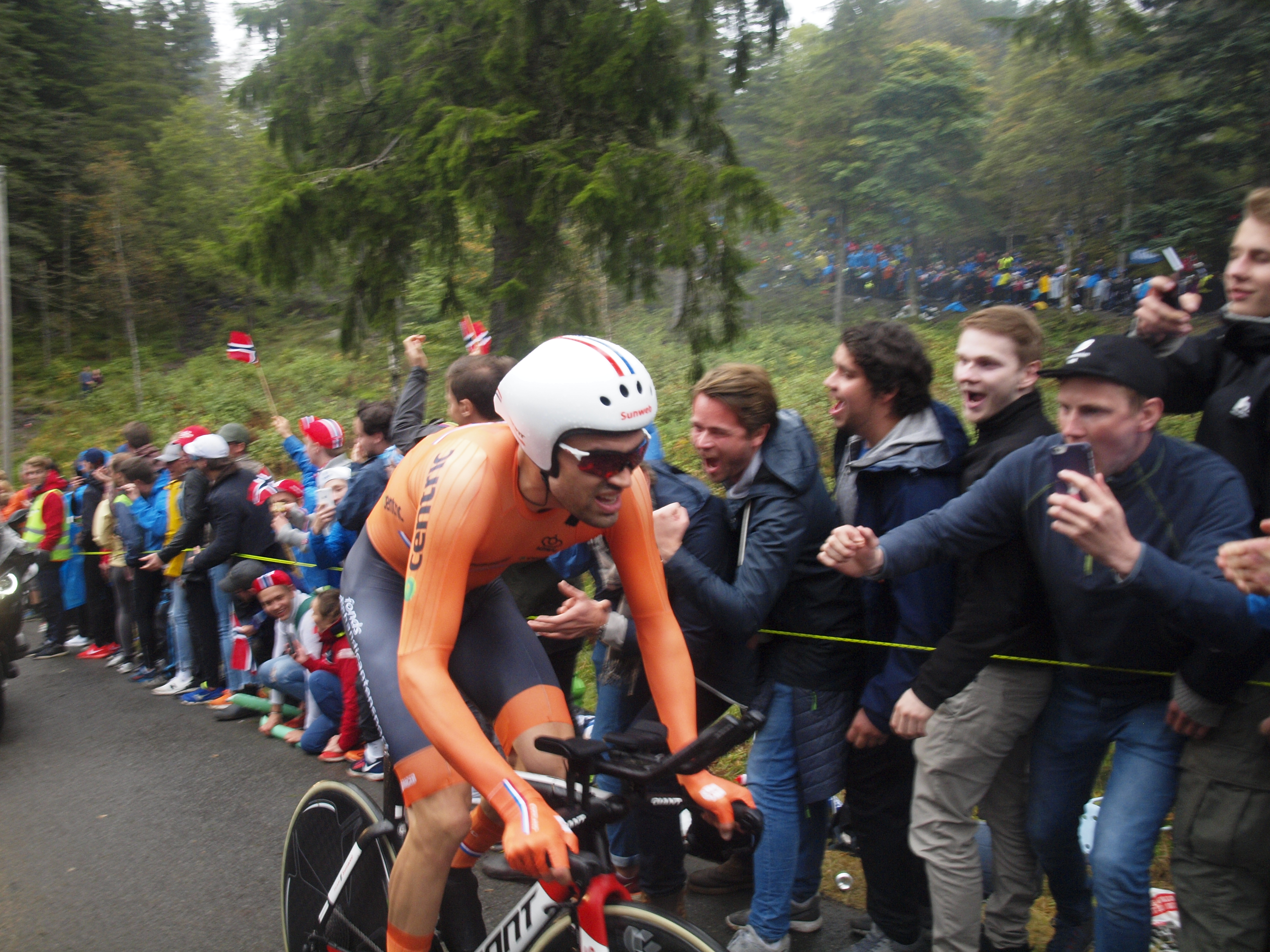 Tom Dumoulin at the 2017 UCI World Championships